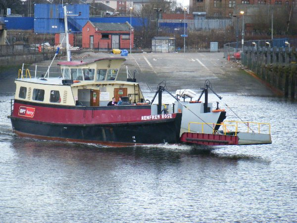 Renfrew Ferry, MV Renfrew Rose in front of the Yoker slip